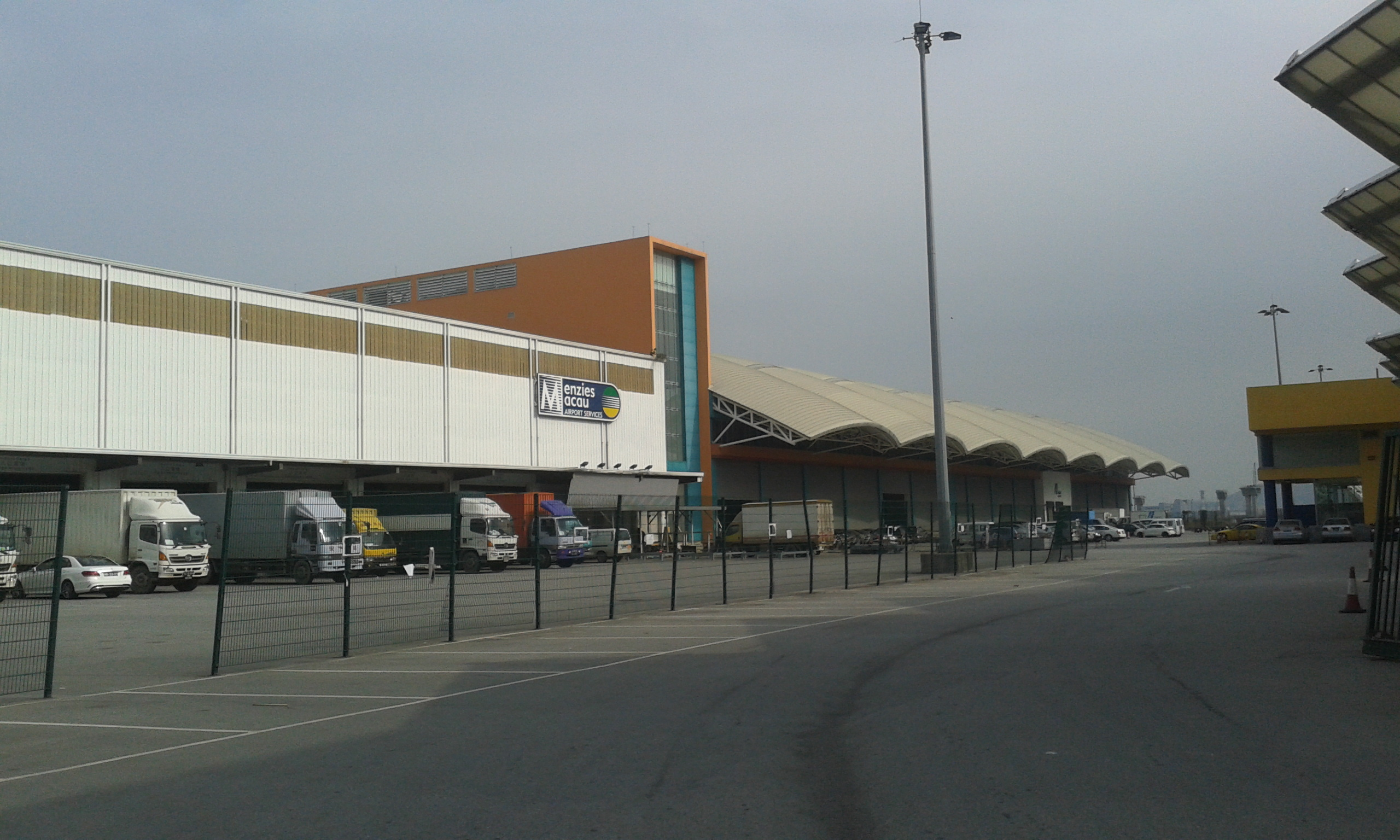 Cargo Warehouse in Macau Internetional Airport